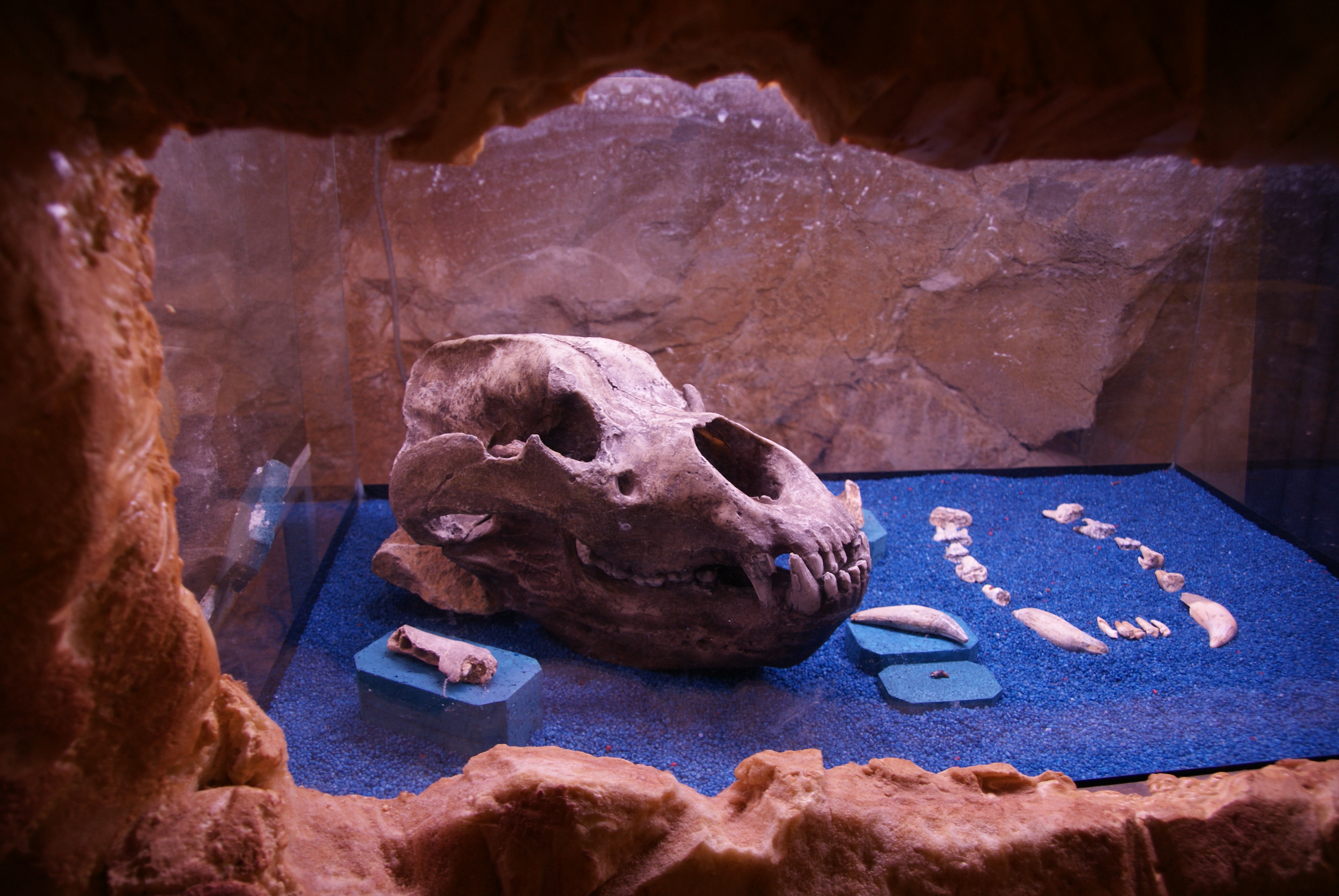 Skull of a Cave bear in the cave San Giovanni d'Antro near Pulfero, Province of Udine